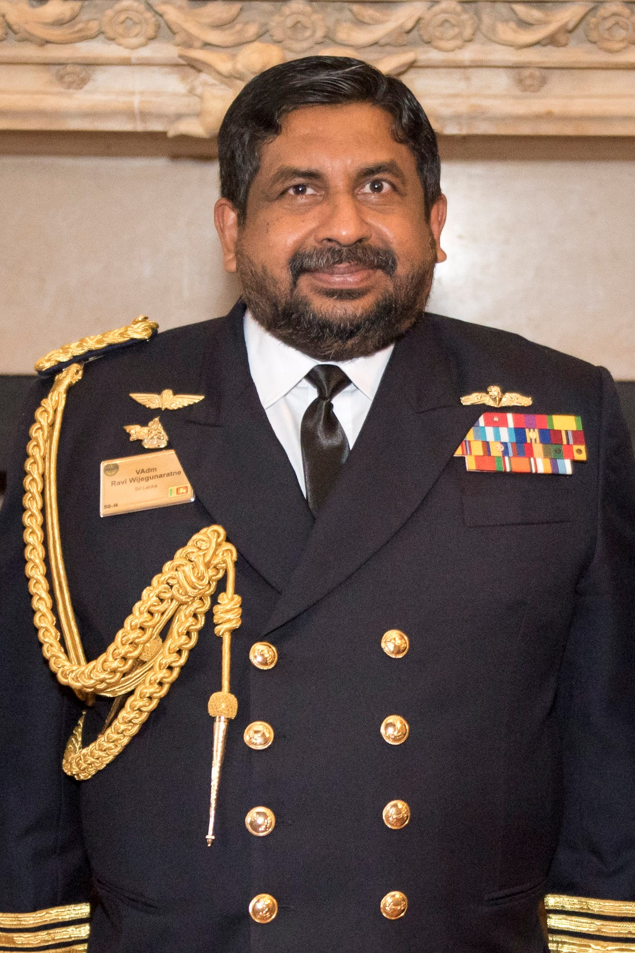 Vice Adm. Ravindra C. Wijegunaratne